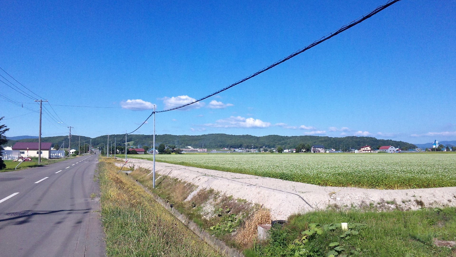 Mount Tossho (Tossho-zan) in Hokkaido, Japan